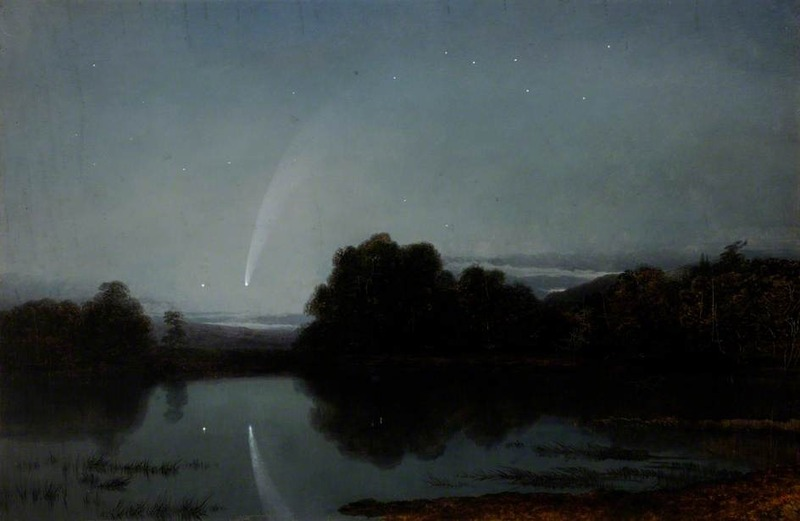 Donati's Comet, 1858, by James Poole